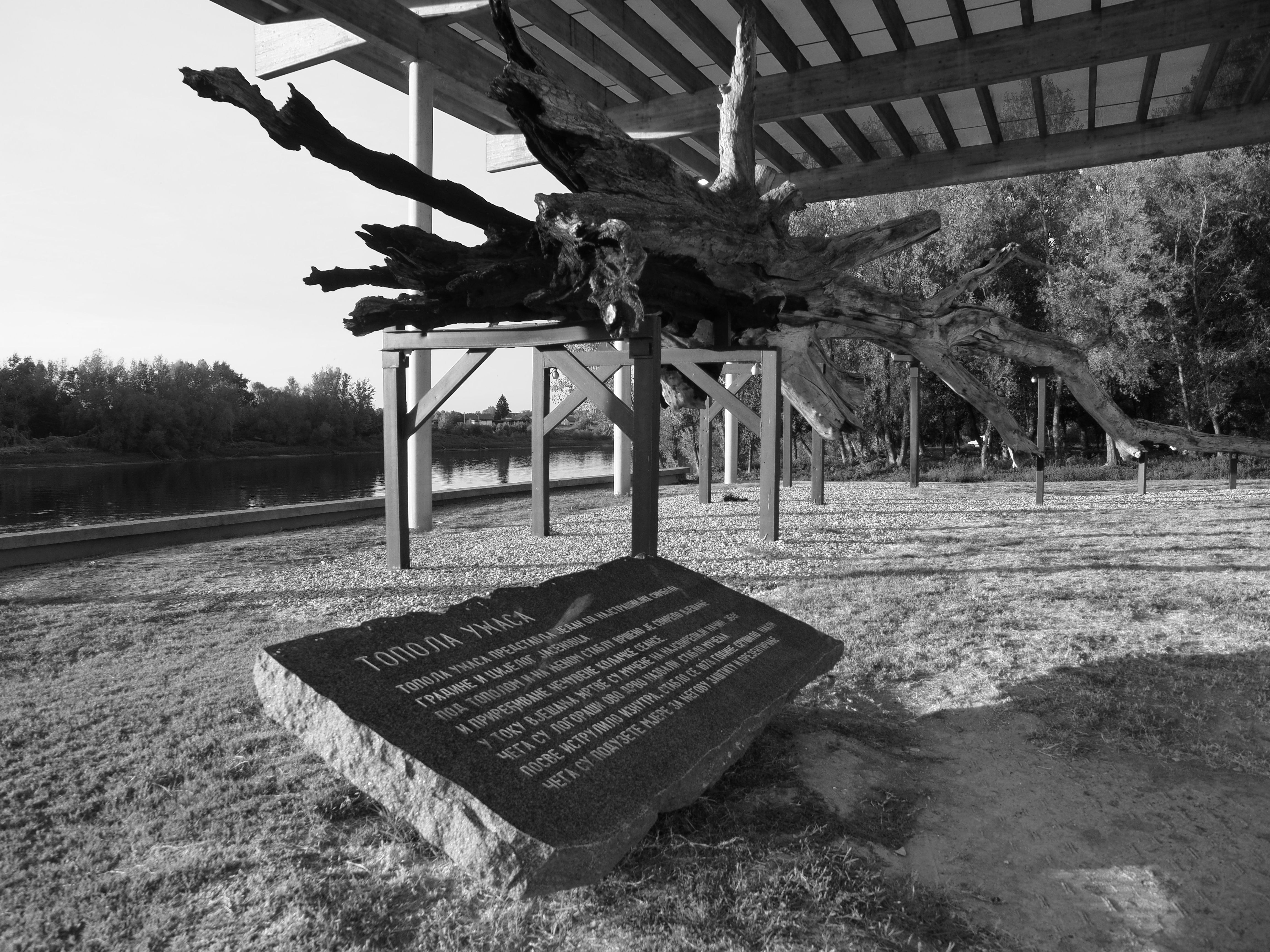 Populus of horror, tree where Ustaše were hanging and butchering Serbs, Jews and Gypsies. Its was part of Donja Gradina extermination camp, south of Jasenovac concentration camp. Some traces of horror are still visible (wedge, holes made for hanging). Tree was hit by lighting in 1978 and crushed, now is part of Donja Gradina memorial camp.